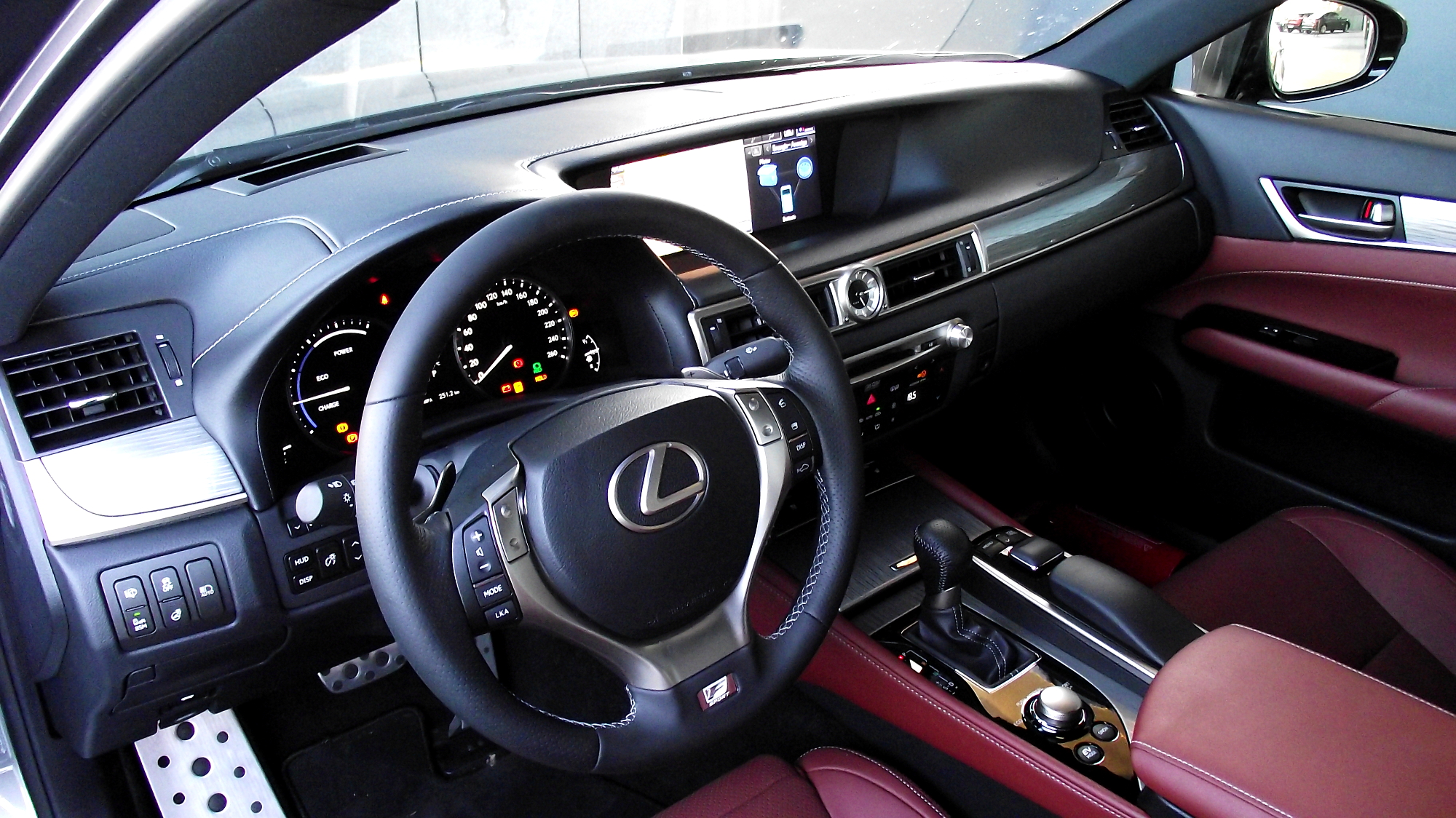 Lexus GS 300h F Sport Cockpit Interior Garnet Leather